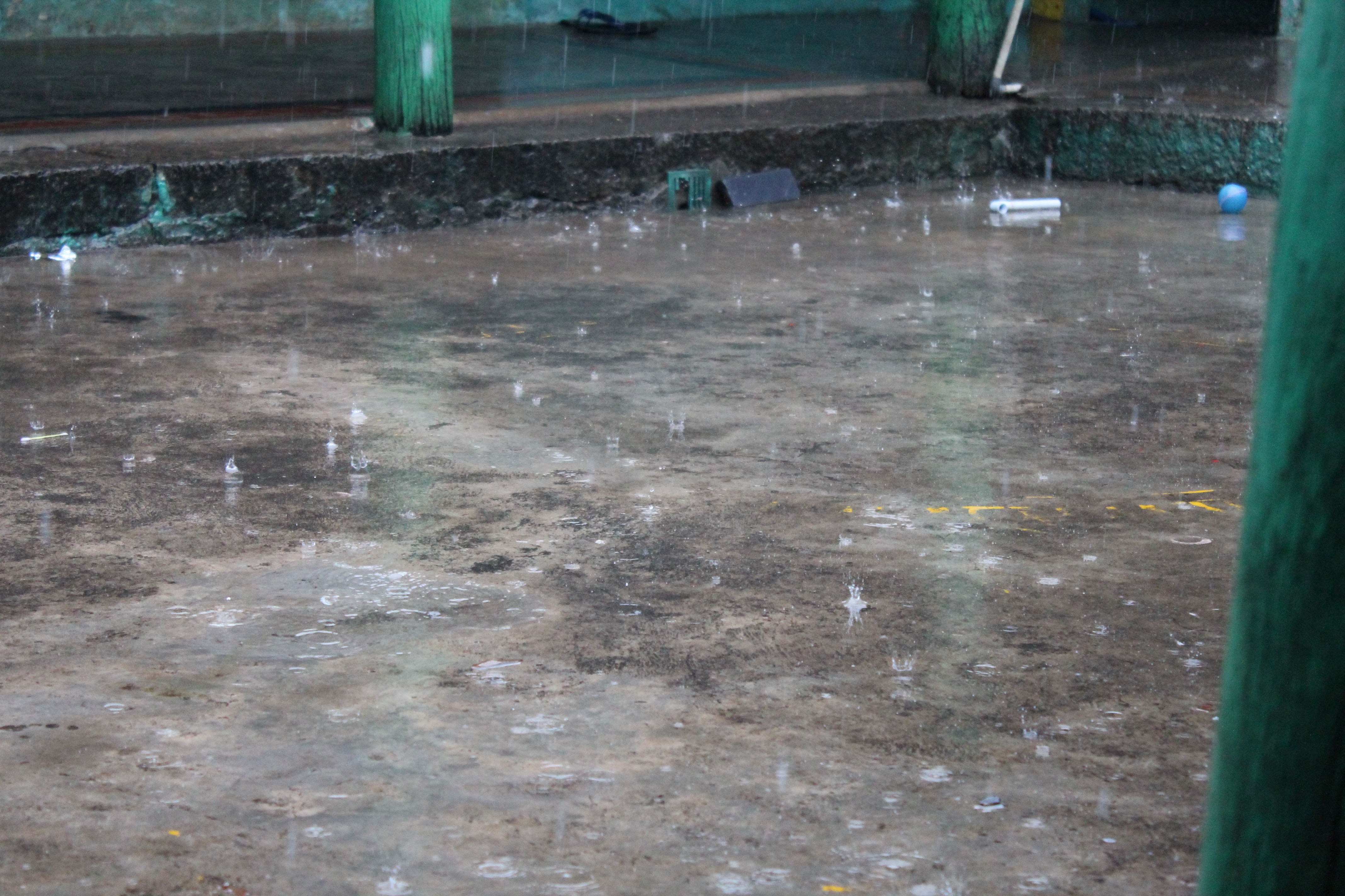 old style arcitecture house in village